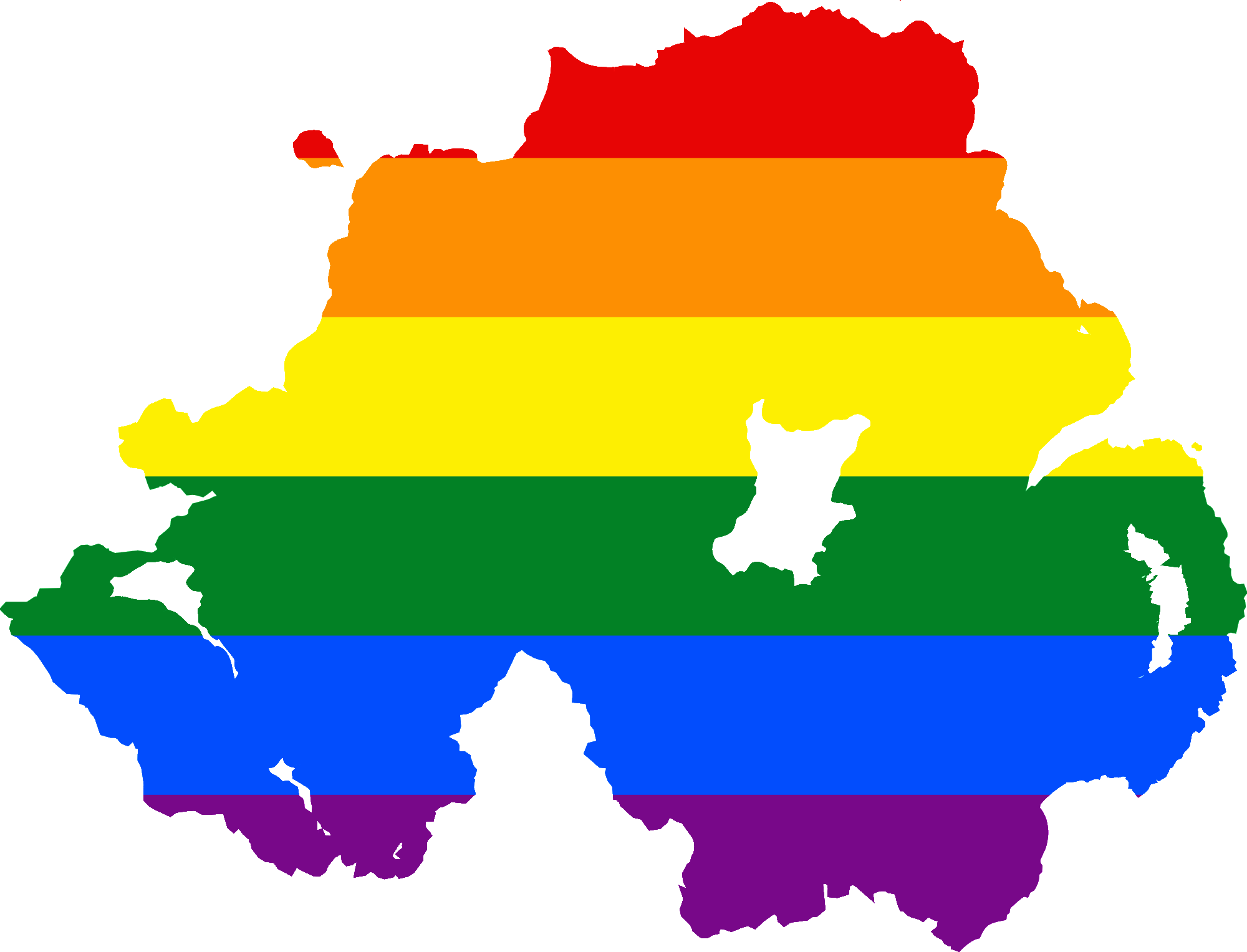 LGBT Flag map of Northern Ireland